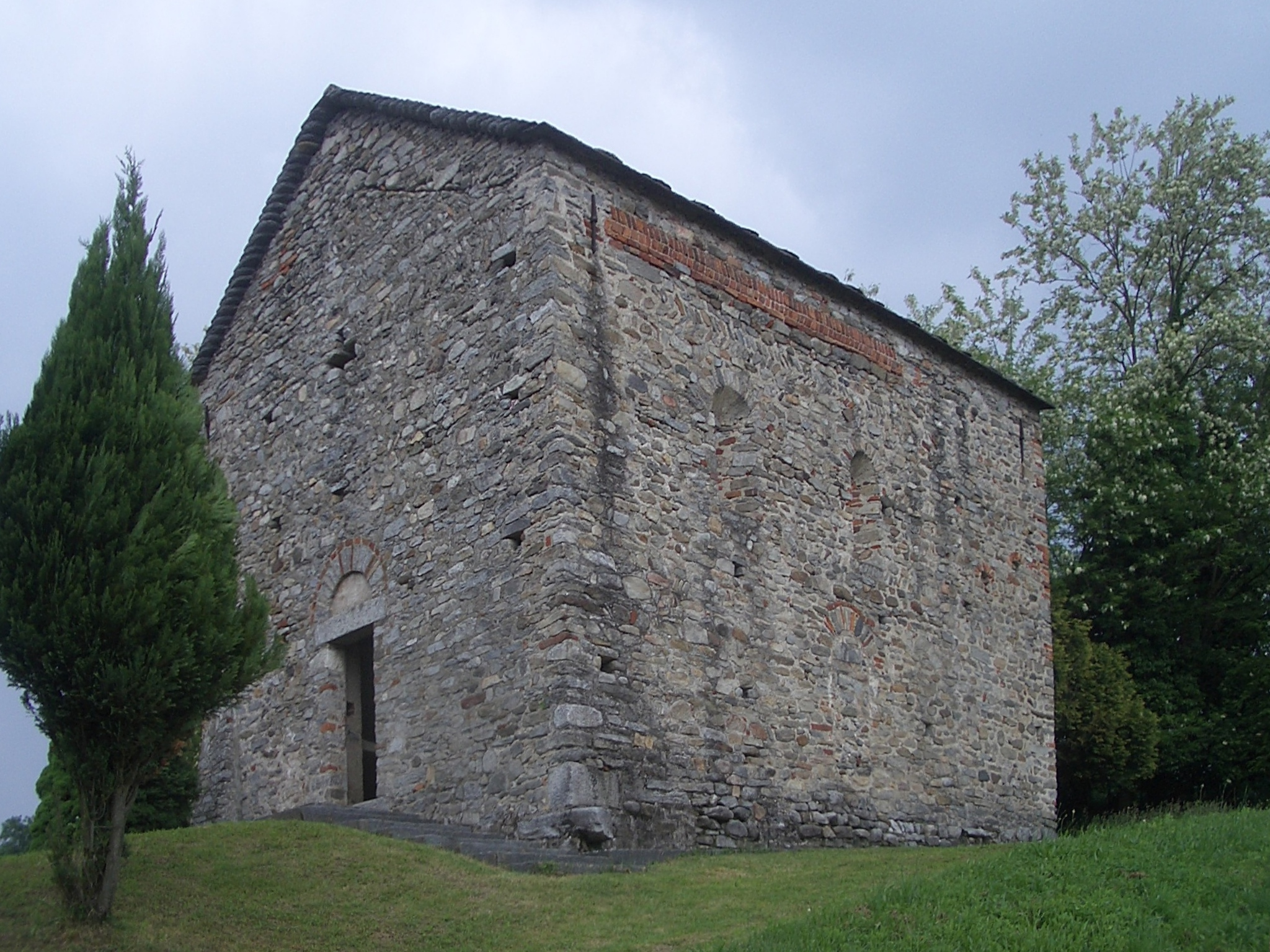 Briga Novarese, Chiesa di San Tommaso, view of the facade